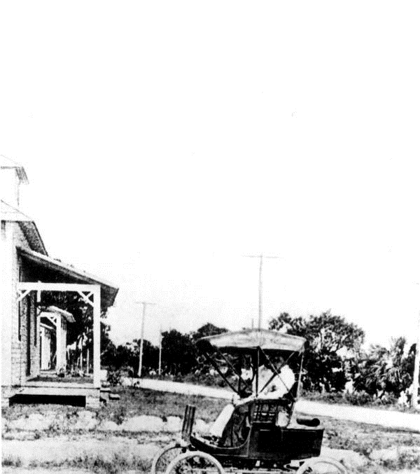 Miami's first automobile on Biscayne Boulevard. Mr. and Mrs. C.H. Billings Sr. in their Locomobile steamer on Biscayne Boulevard. It was a twin cylinder driven car with a copper tube boiler that used a gasoline burner for making steam. It could attain a speed of about 25 mph. It was obtained thru the efforts of Mr. G.C. Frissell, a winter visitor from New Haven, Connecticut.